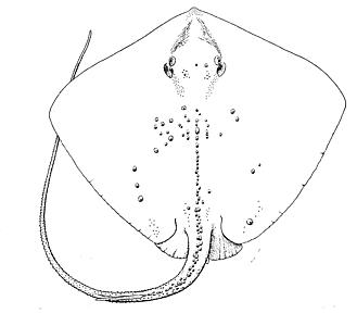 Drawing of a roughtail stingray (Dasyatis centroura).